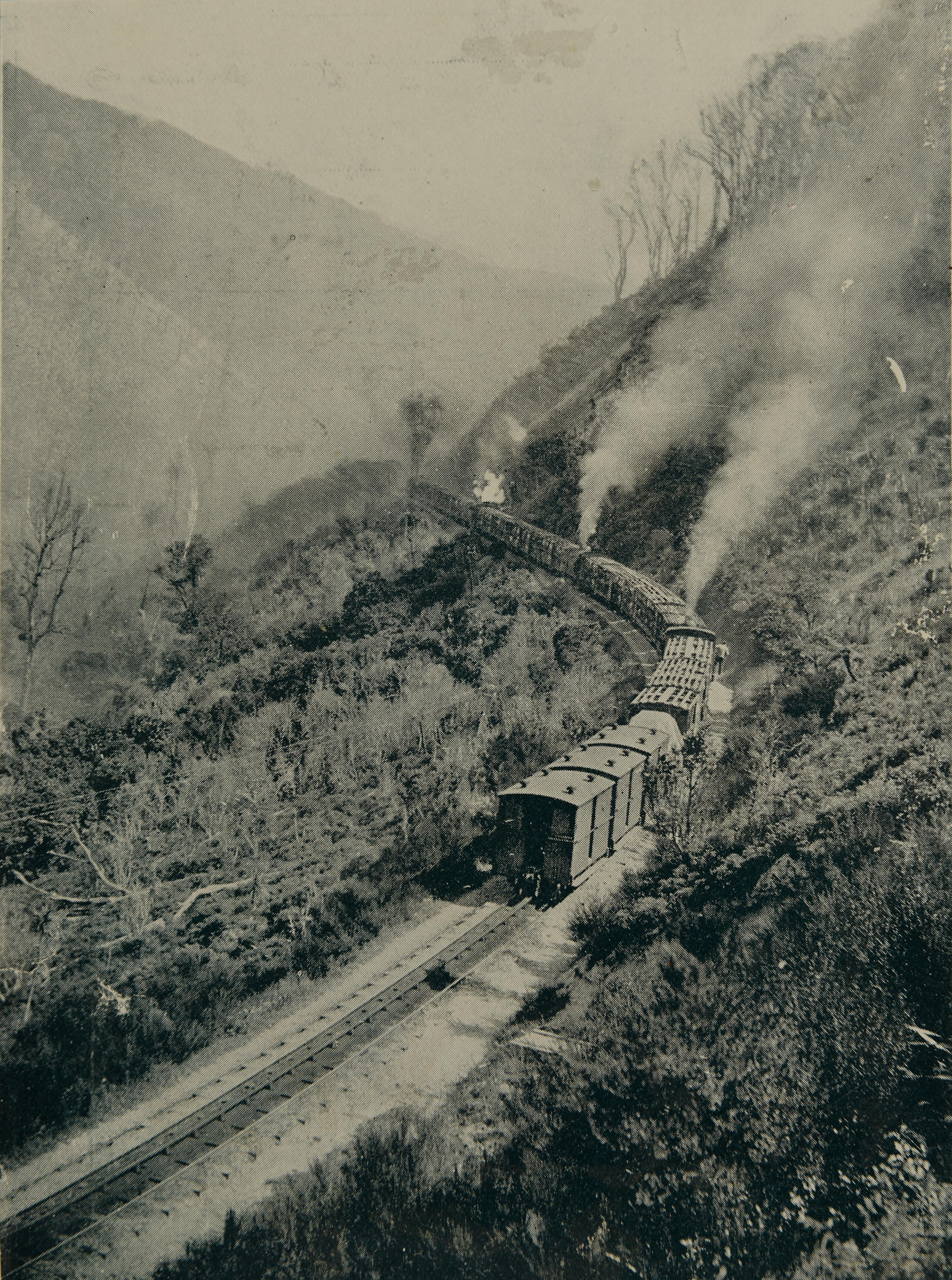 Archives Reference: ABIN W3337 Box 207